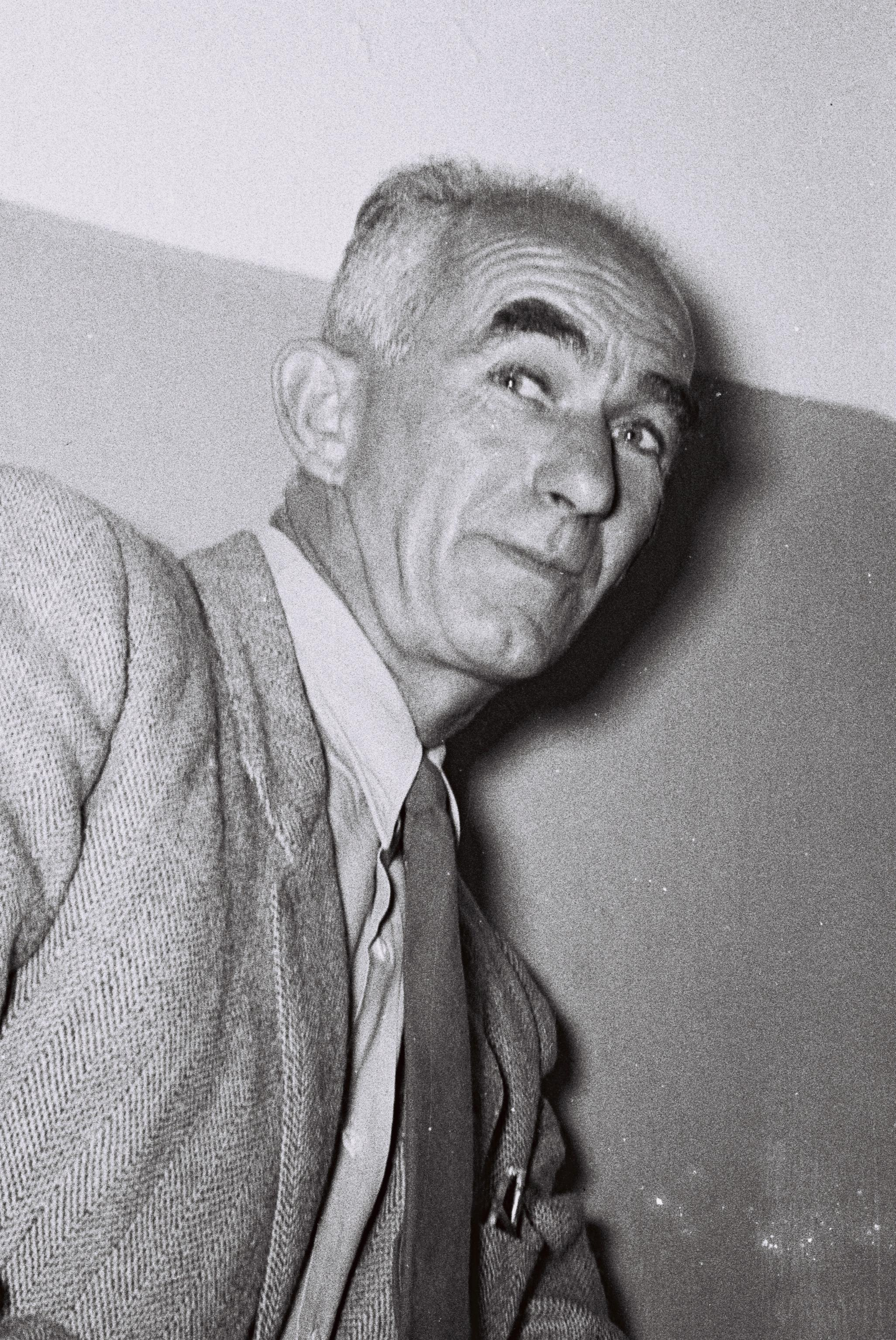 Isser Be'eri head of the Inteligence department in the Hagana and IDF in 1948